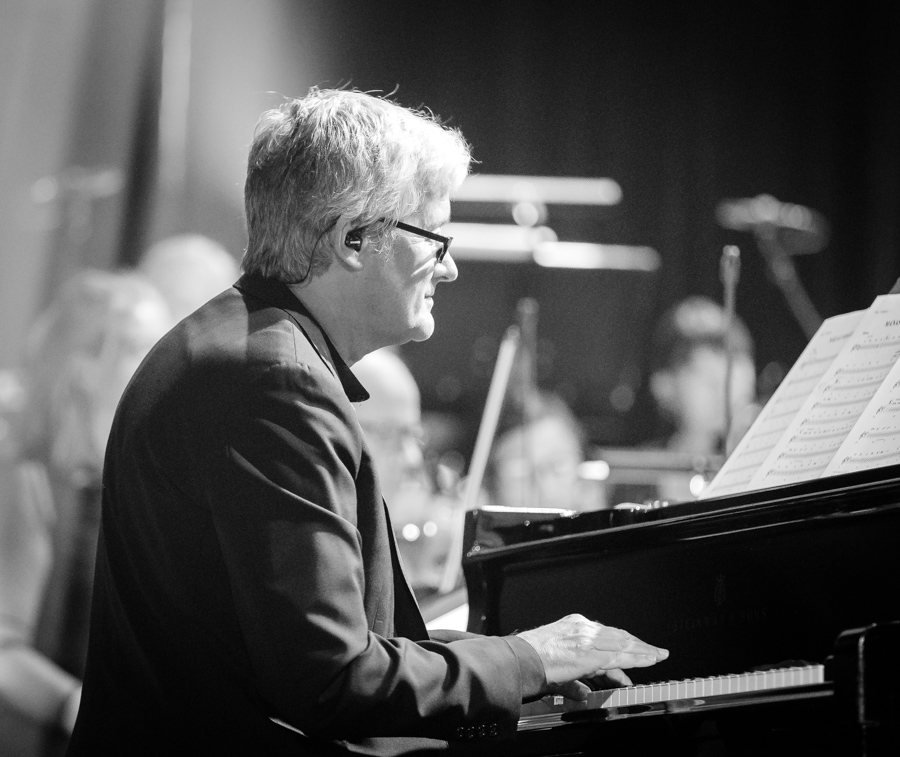 Rob Mounsey with Kringkastingsorkesteret in Store sal at Oslo Konserthus. The concert was part of Oslo Jazzfestival and took place on 15. August 2018 in Oslo. Lineup: Terje Nilsen (vocal)Kringkastingsorkesteret (orchestra) Gunnar Pedersen (guitar) Terje Nohr (guitar) Rob Mounsey (piano and conductor) Kjetil Sandnes (bass guitar) Steinar Krokstad (drums)